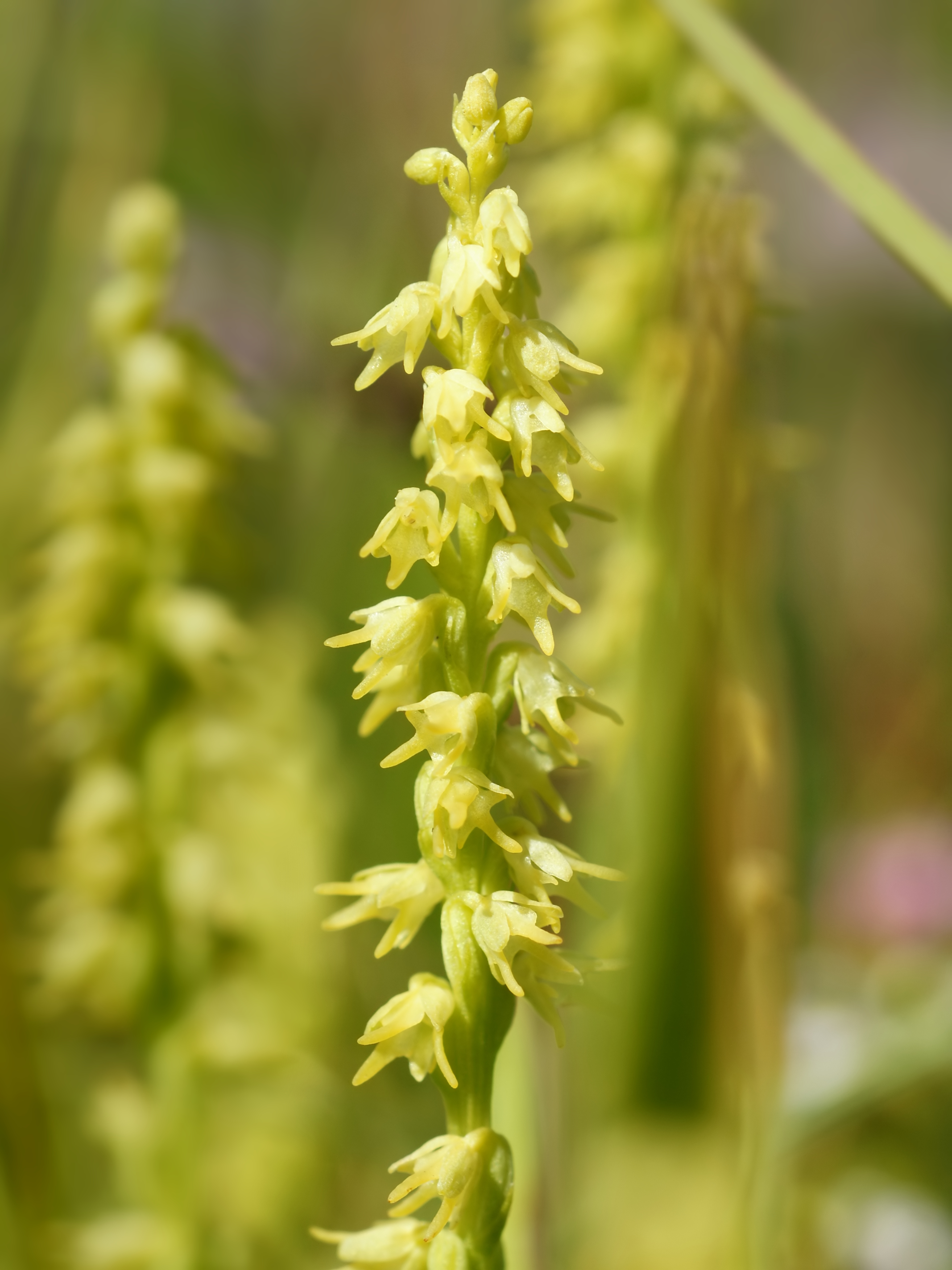 Musk Orchid.